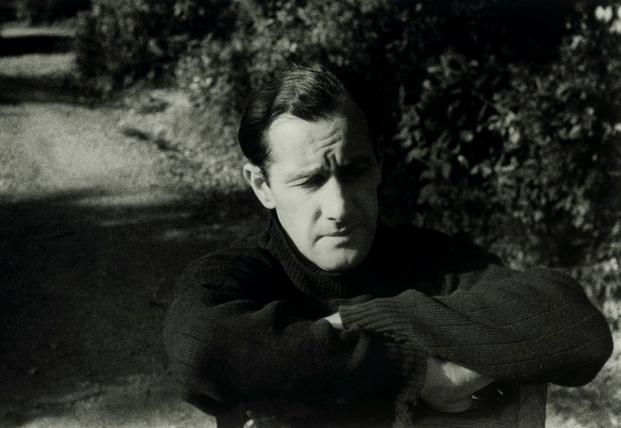 Photograph of Australian artist Sidney Nolan, taken by Albert Tucker